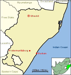 Location map for Utrecht